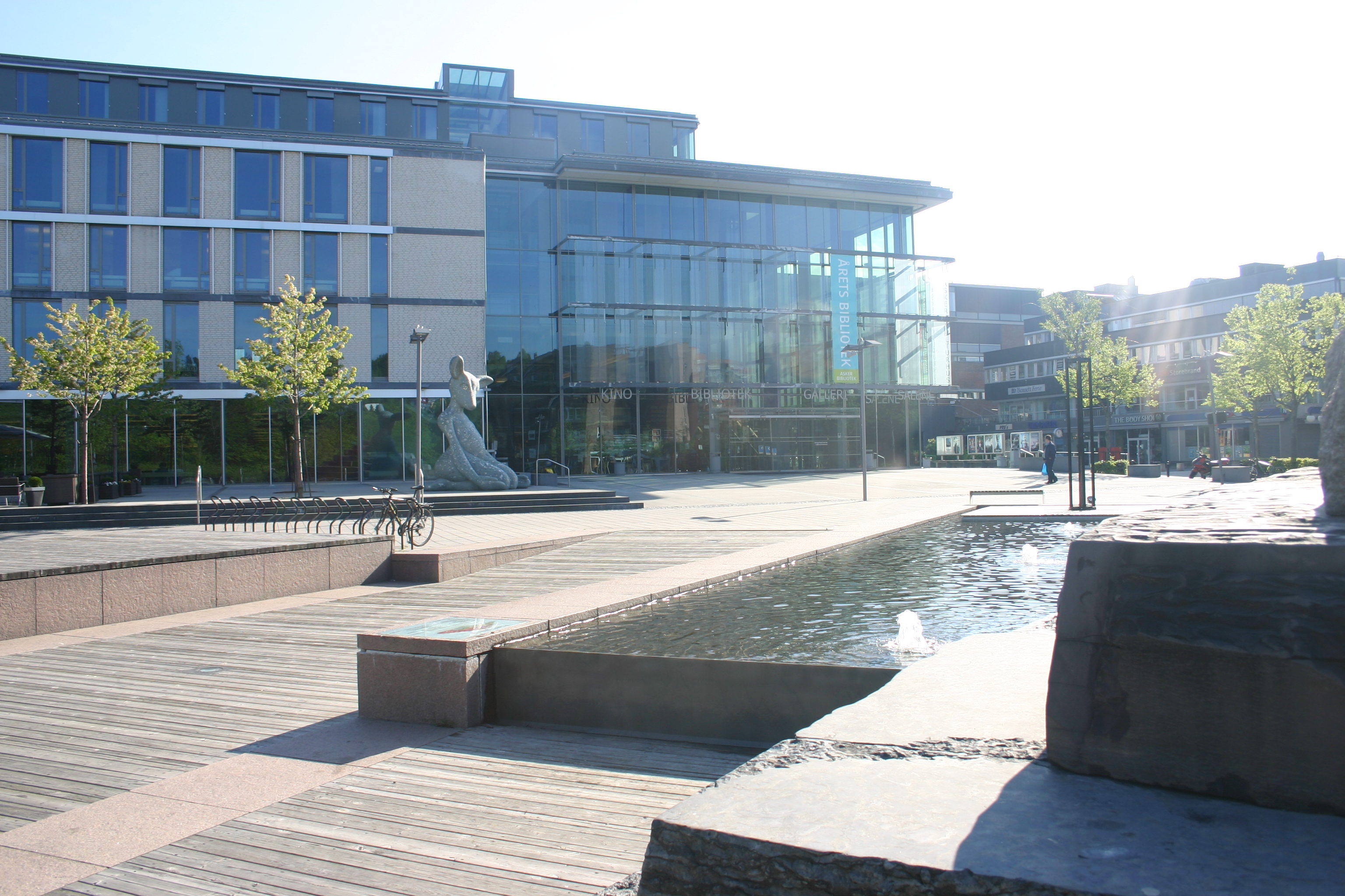 Picture of Bakerløkka in Asker, with front view of Asker kulturhus